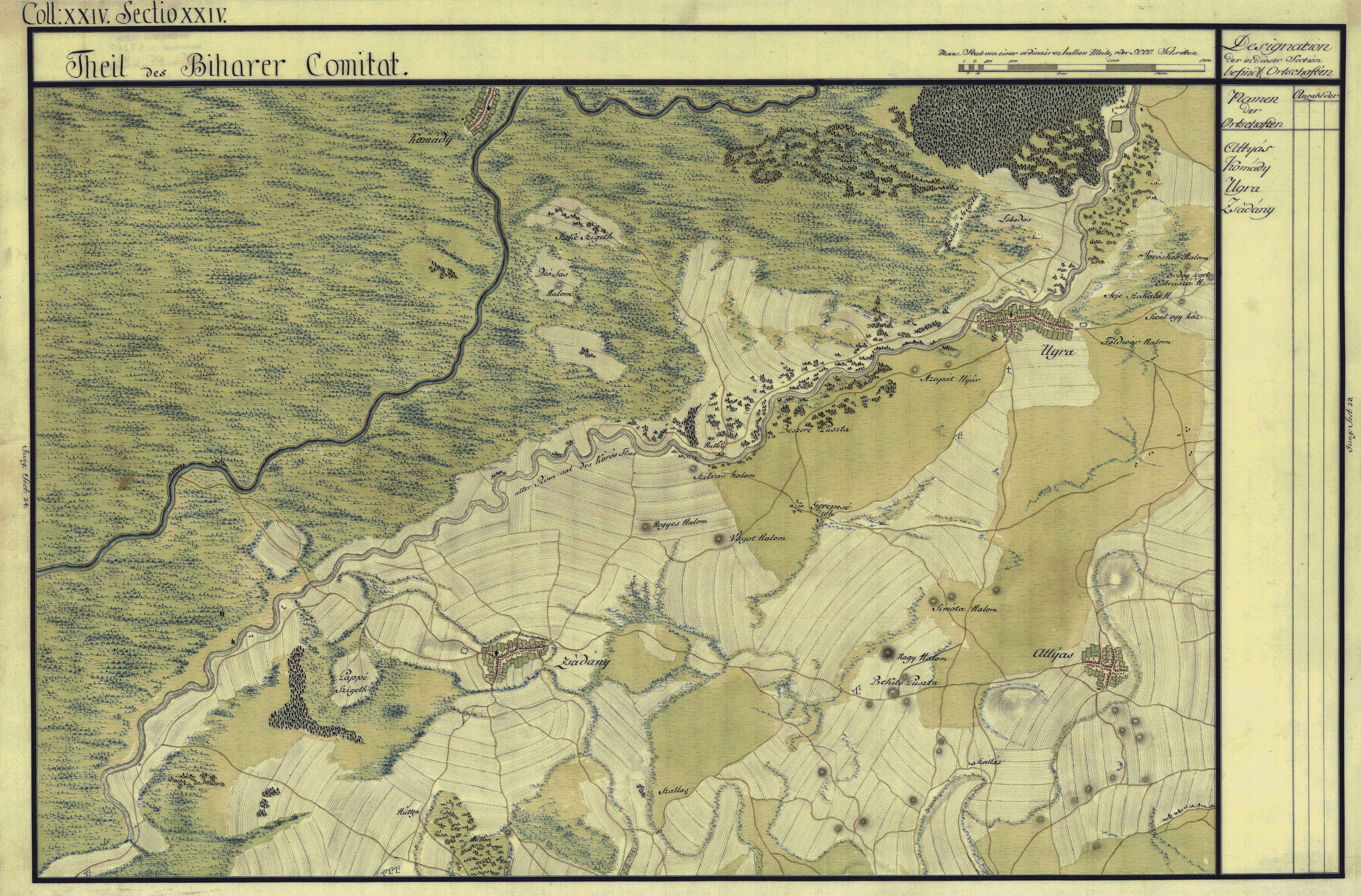 Bihor County, 1782-85. Josephinische Landesaufnahme pg.24-24